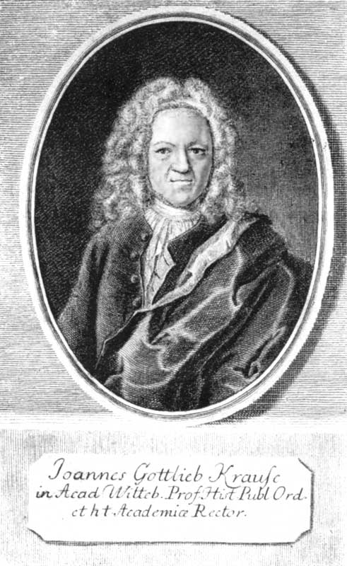 Johann Gottlieb Kraus (1684-1736) Historian from Germany